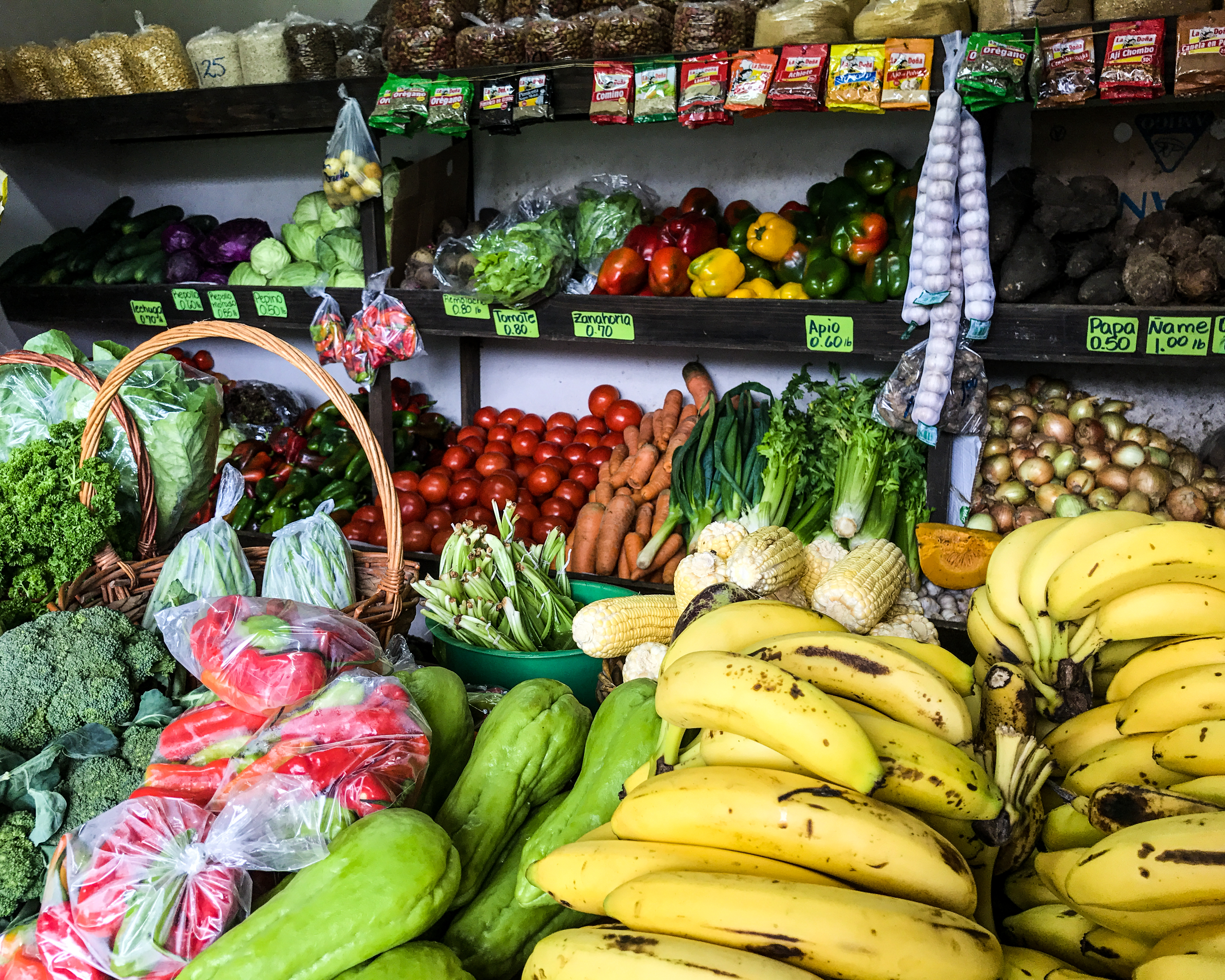 A display of fresh, locally grown fruits and vegetables in the public market in Boquete, Panama